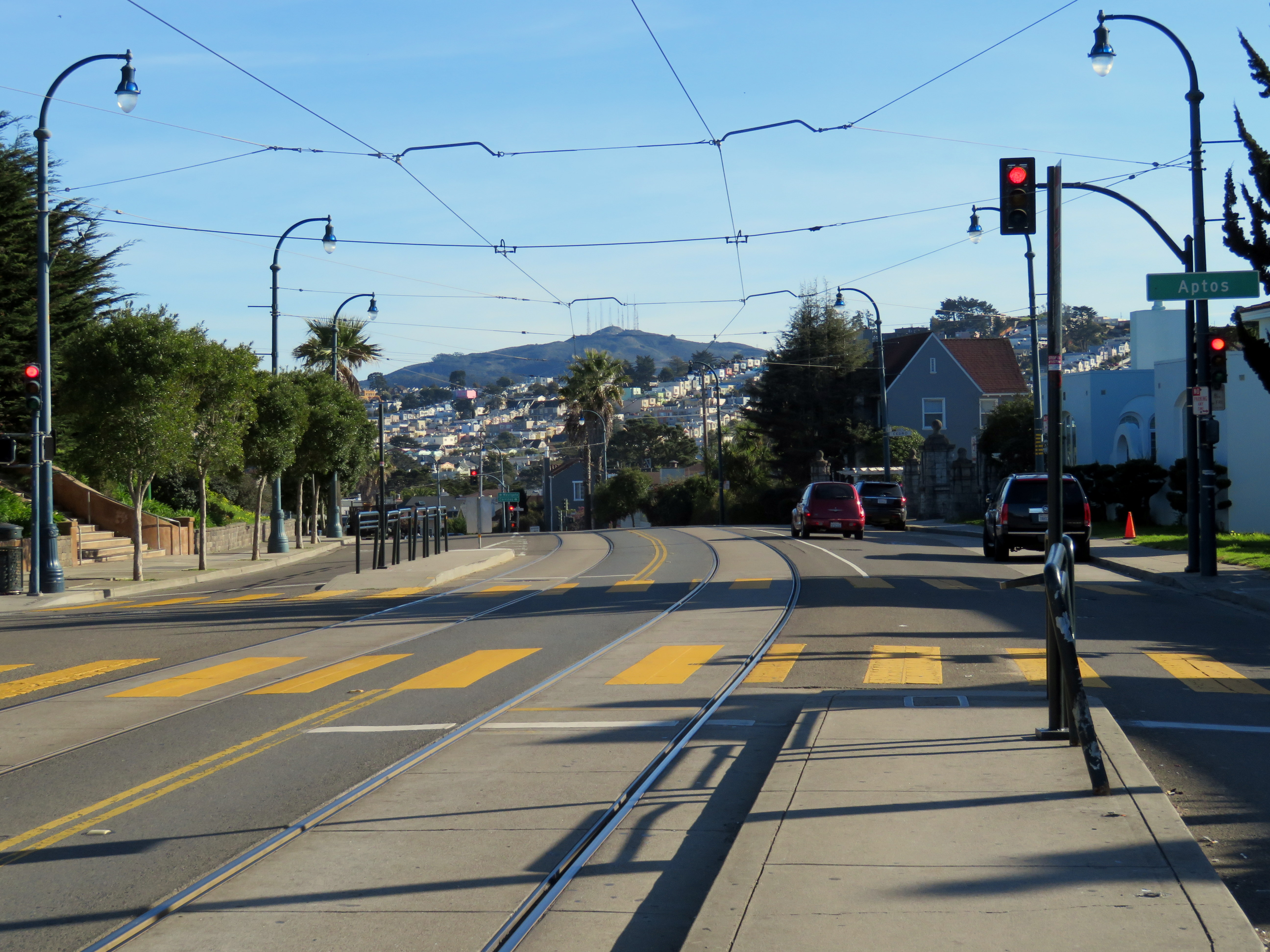 Facing outbound at Ocean and Aptos station in January 2018